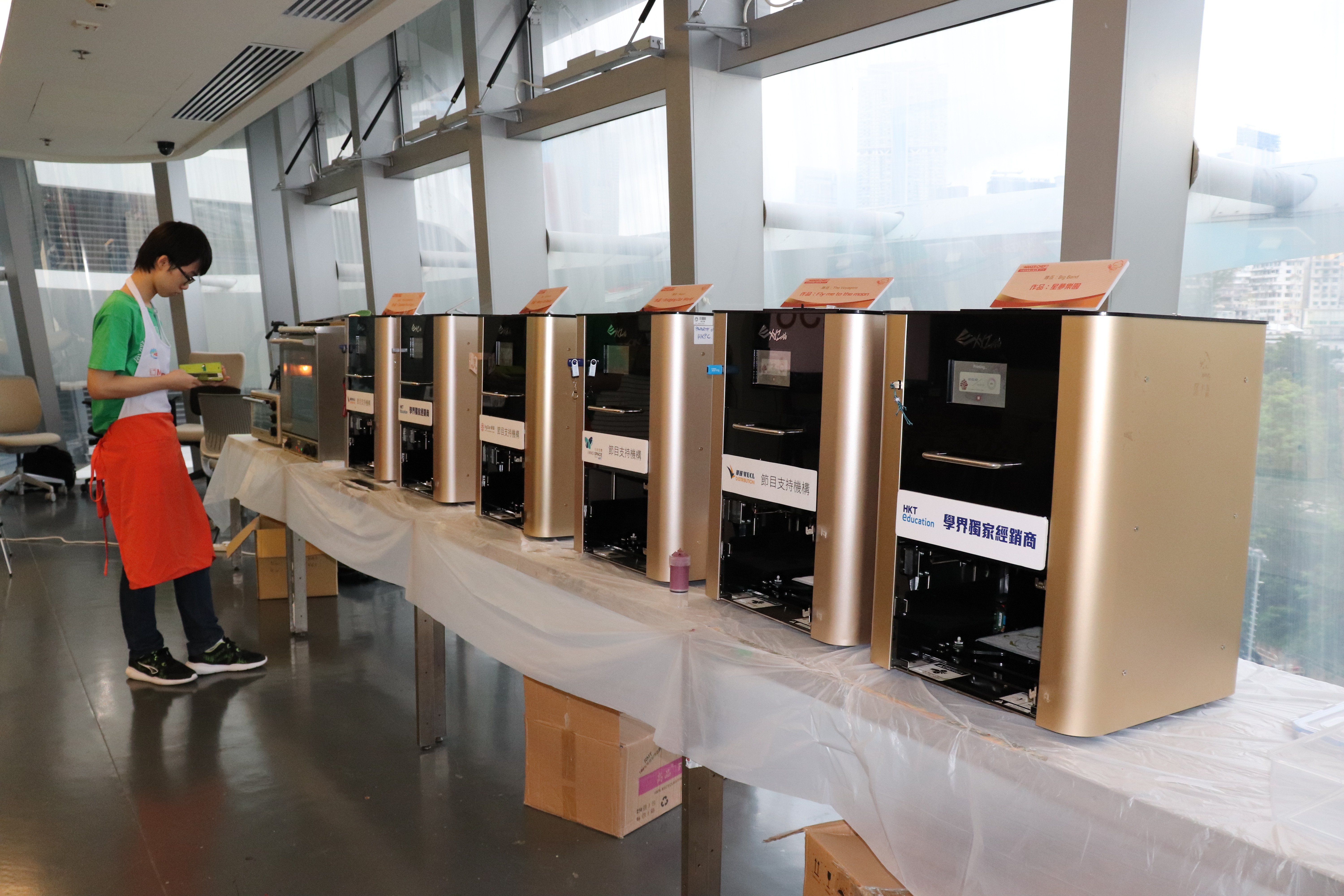 3D food printer